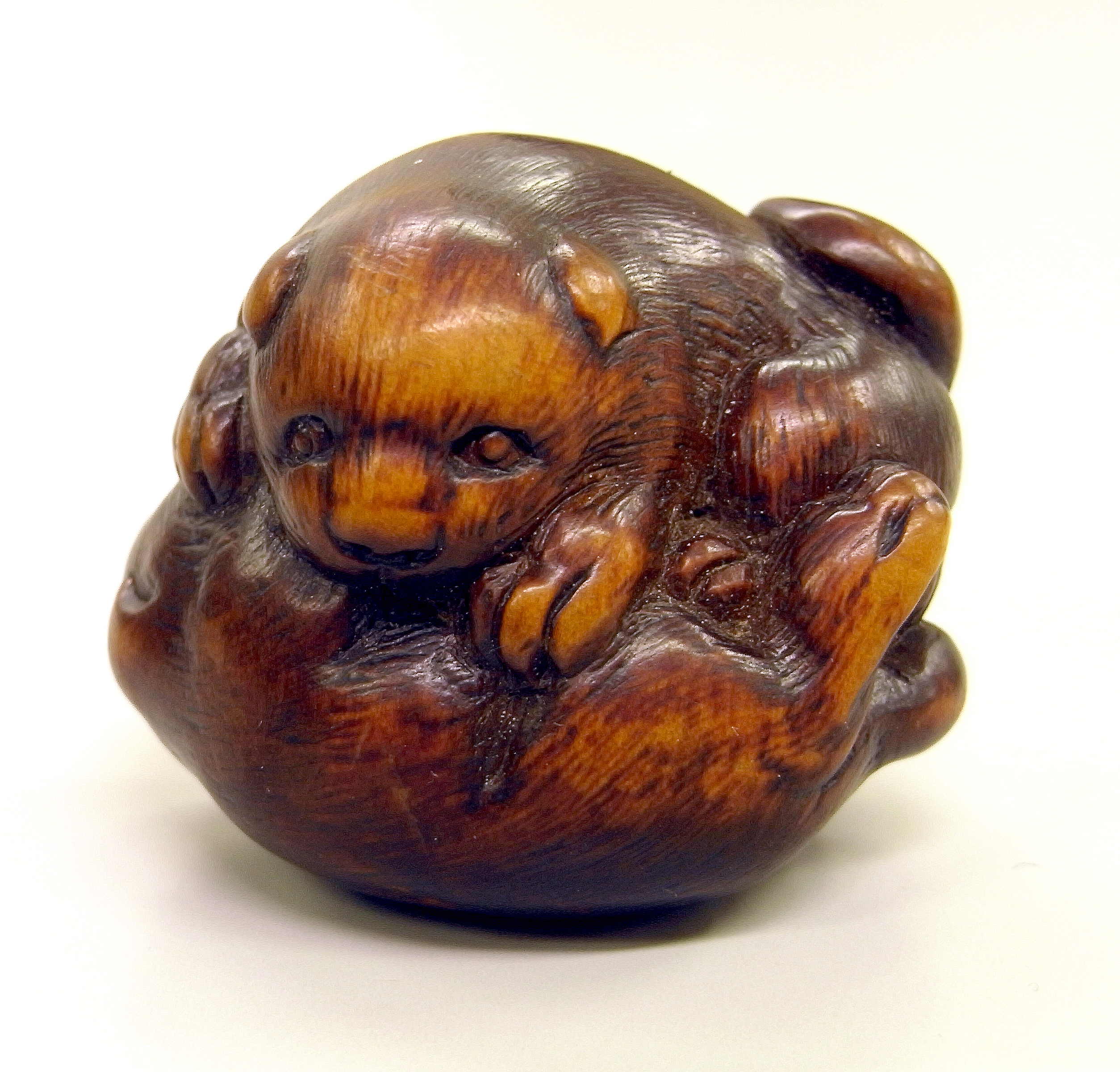 Dog shaped wooden netsuke created by Kokei(虎渓), Edo era creator in Japan